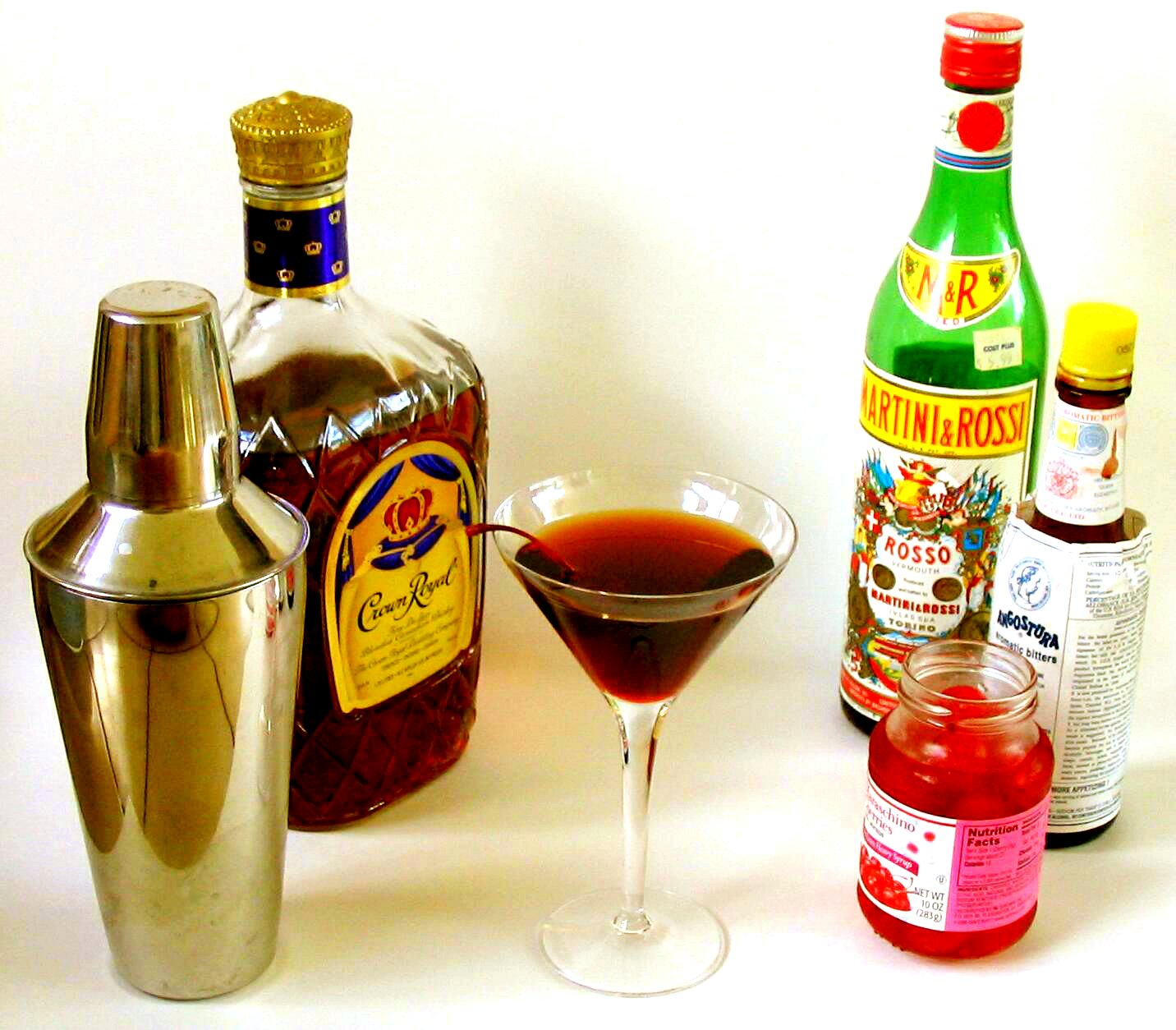 Photograph available under GFDL license. A Manhattan cocktail with its associated components. From left to right: A cocktail shaker used to mix the drink, a bottle of Crown Royal whisky, the completed cocktail in a cocktail glass, a bottle of Martini & Rossi Rosso vermouth, a bottle of maraschino cherries, and a bottle of Angostura bitters. I took this picture myself, on 4 August 2006, using a Canon PowerShot A70, and edited it slightly using Picasa2. You do not need my permission to reuse it, but you may not claim that you took the photo yourself. Hayford Peirce 04:19, 26 September 2006 (UTC)